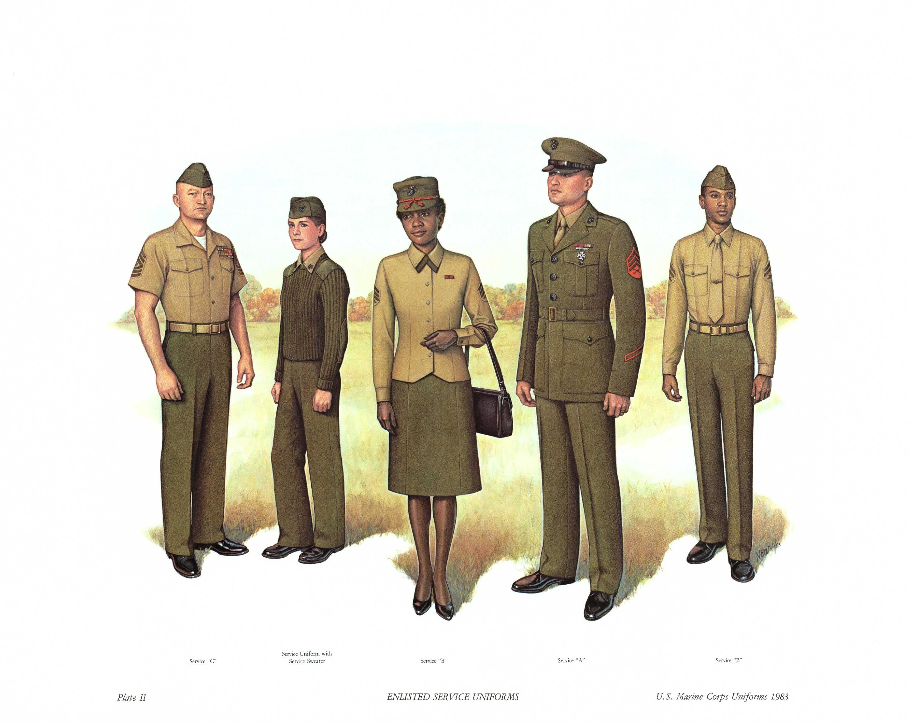 Taken from Marine Corps Uniforms 1983 (Color Prints PCN 19000316200).